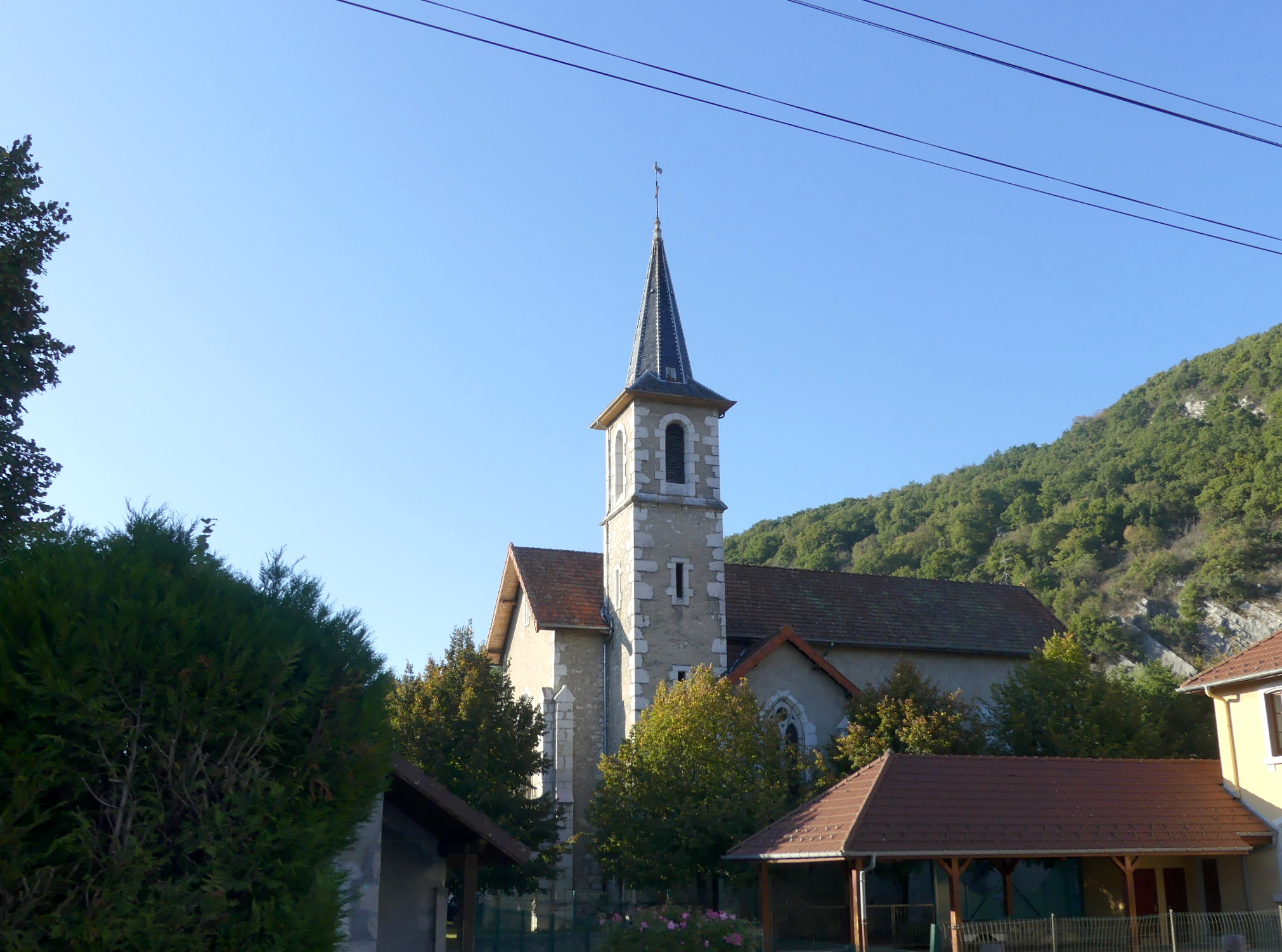 Sight, in the evening, of Vions church, in northern Savoie, France.